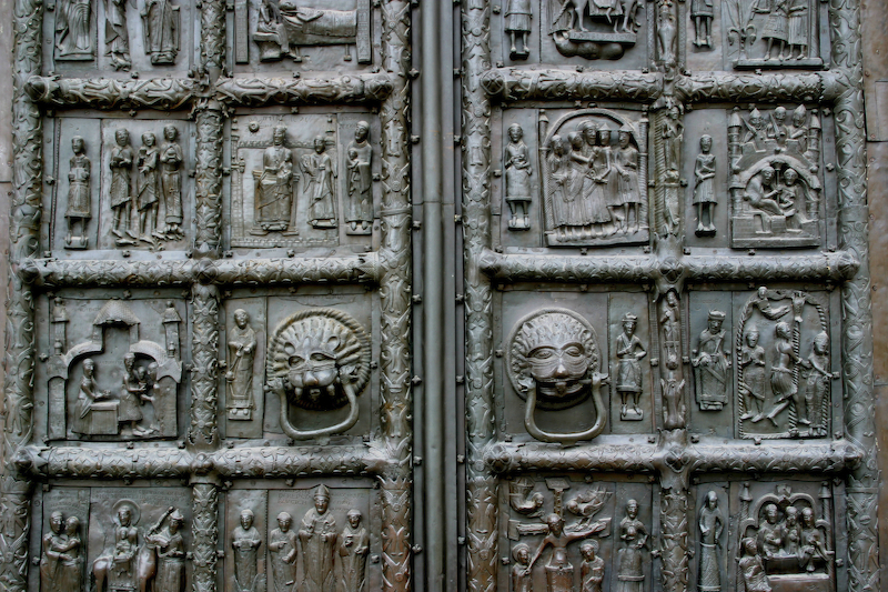 Magdeburg Gates (Saint Sophia Cathedral, Novgorod)